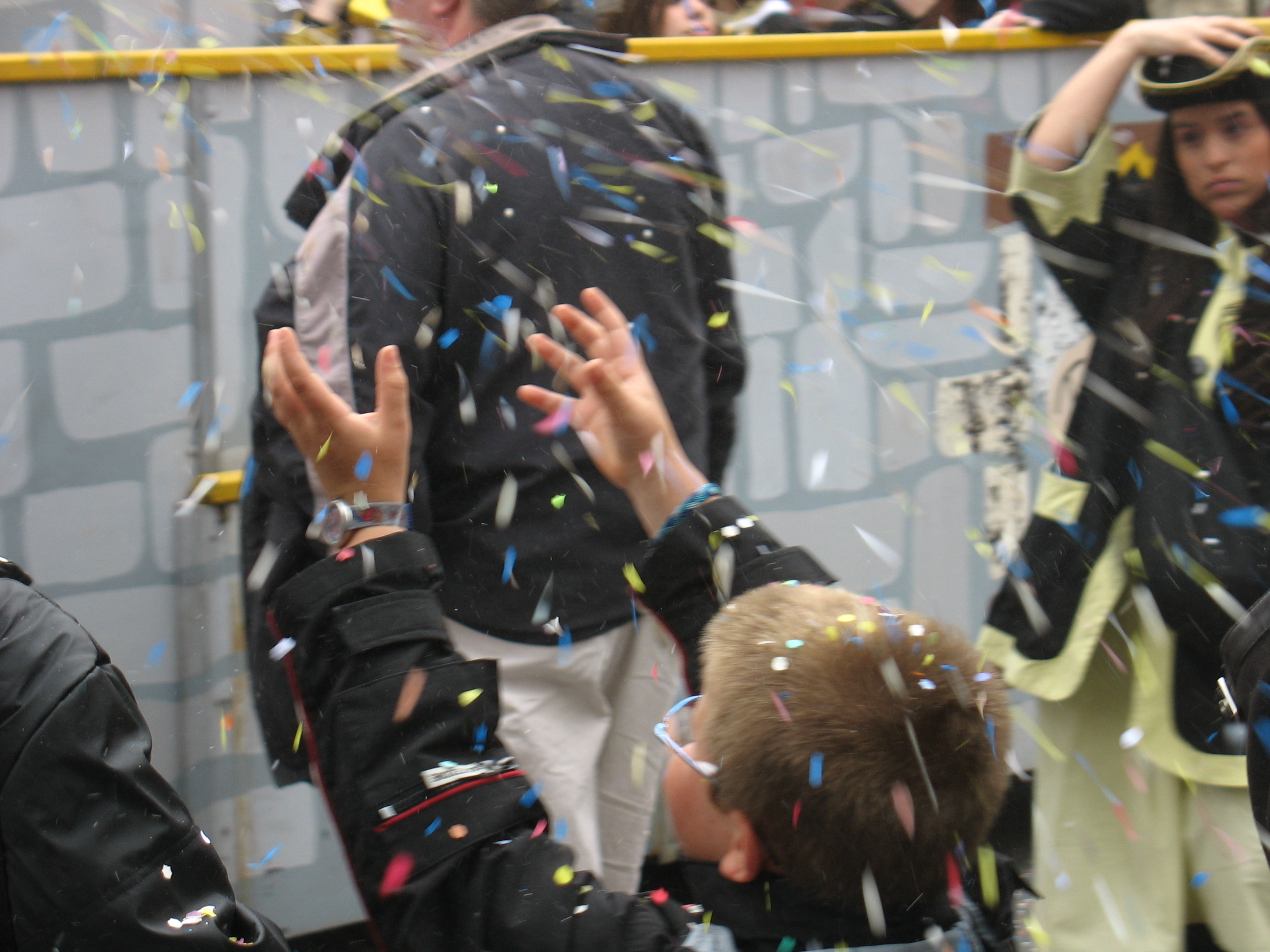 Small boy trying to catch confetti at Folk Festival in Namur, Belgium.